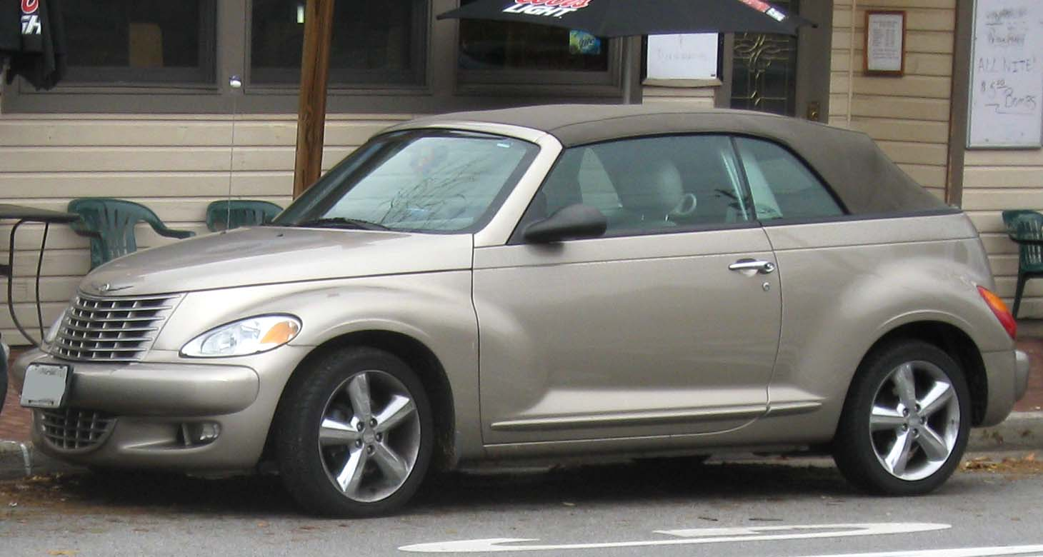 2005 Chrysler PT Cruiser GT photographed in Laurel, Maryland, USA.